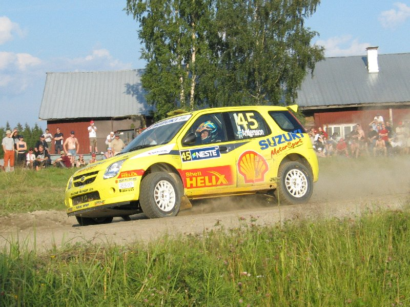 Per-Gunnar Andersson driving his Suzuki Ignis S1600 at the 2004 Rally Finland.